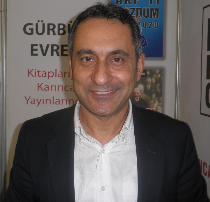 Gürbüz Evren, Turkish writer.